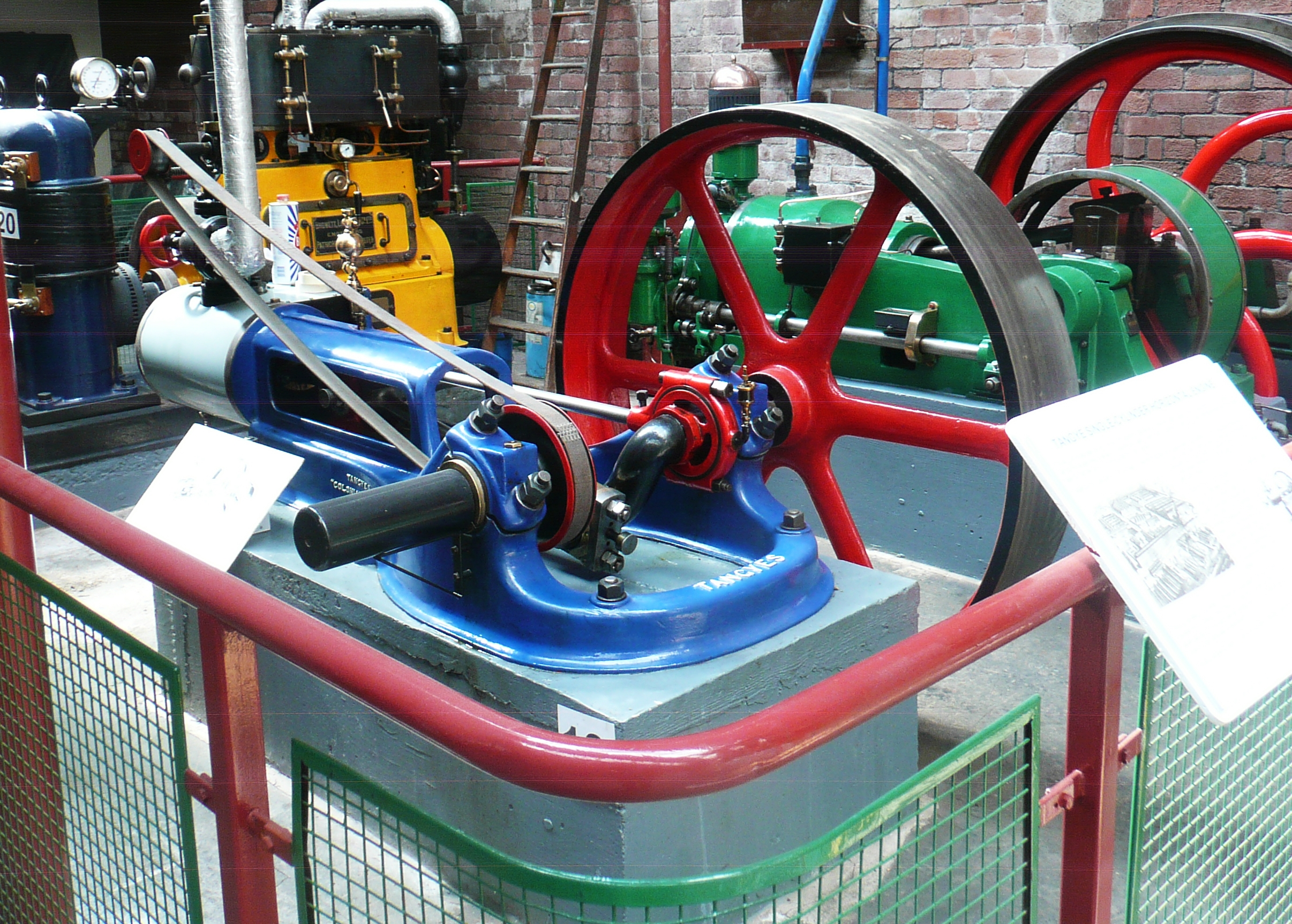 Tangye horozontal "Colonial" steam engine at Bolton Steam Museum